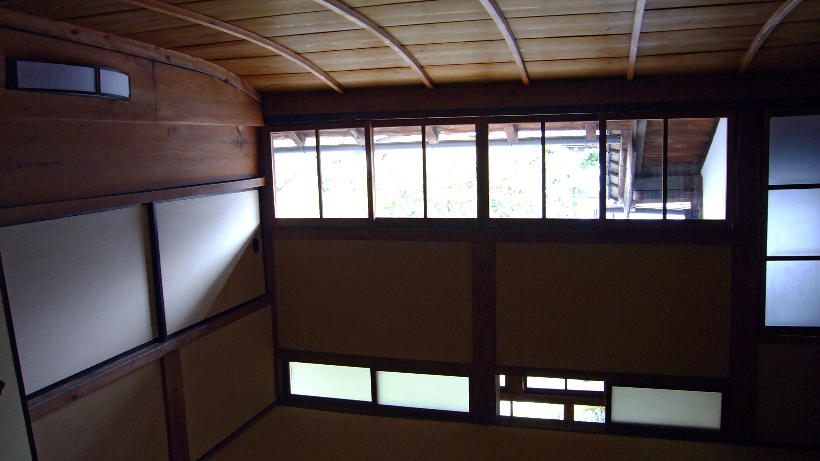 Shioya Demise in Chidu-cho, Tottori prefecture, Japan